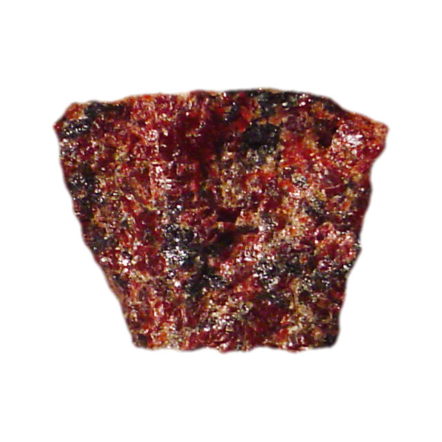 These mineral images are free to use how you wish.